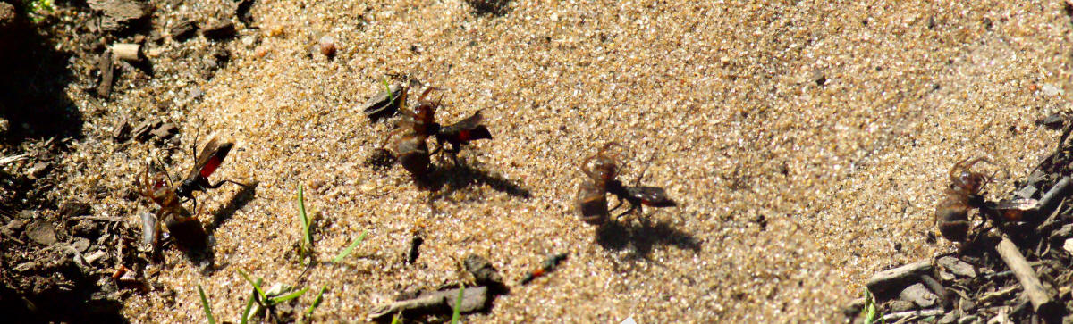 Spider-hunting wasp is seen in 4 stages of this true composite image, running backwards (image is mirrored), dragging a spider larger than itself across the bare sand of The Lodge, Sandy, Bedfordshire, England